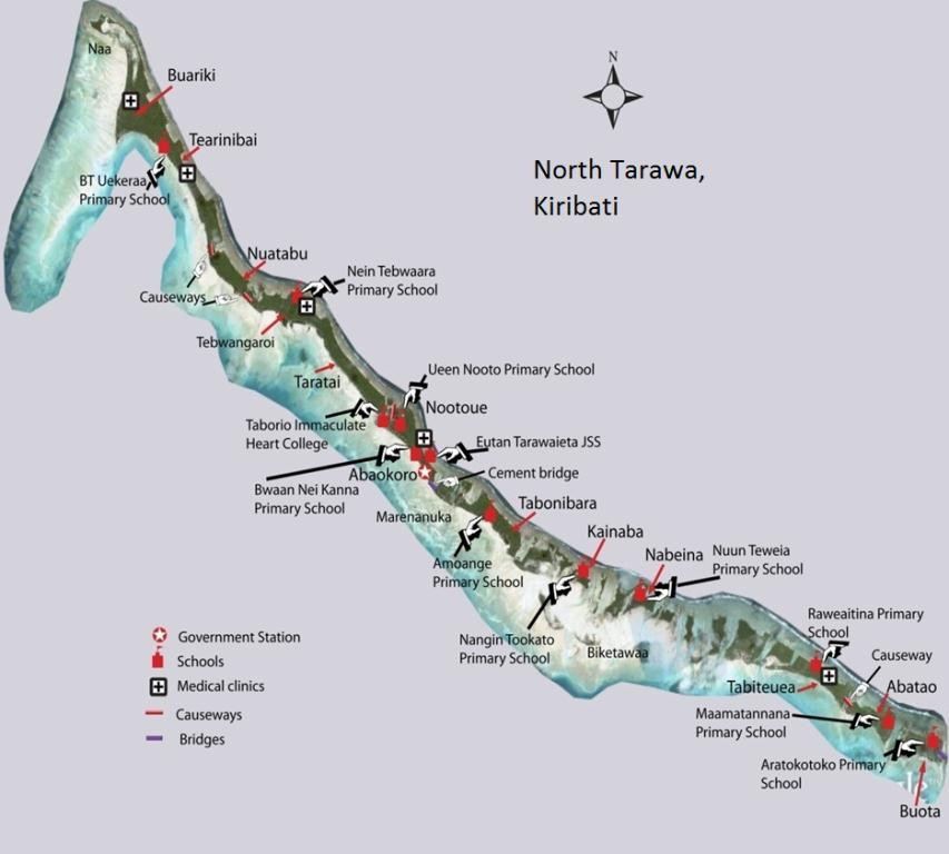 Astronaut photo of North Tarawa, Kiribati, with villages and main landmarks